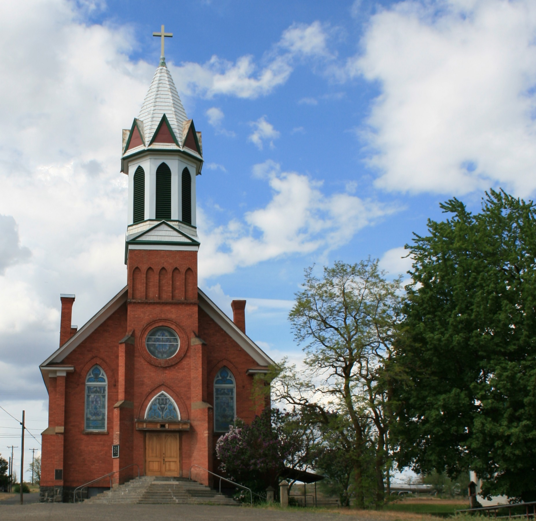 Mary Queen of Heaven Parish Church in Sprague, Washington. The church has been placed on the National Register of Historic Buildings by the U.S. Department of Interior.